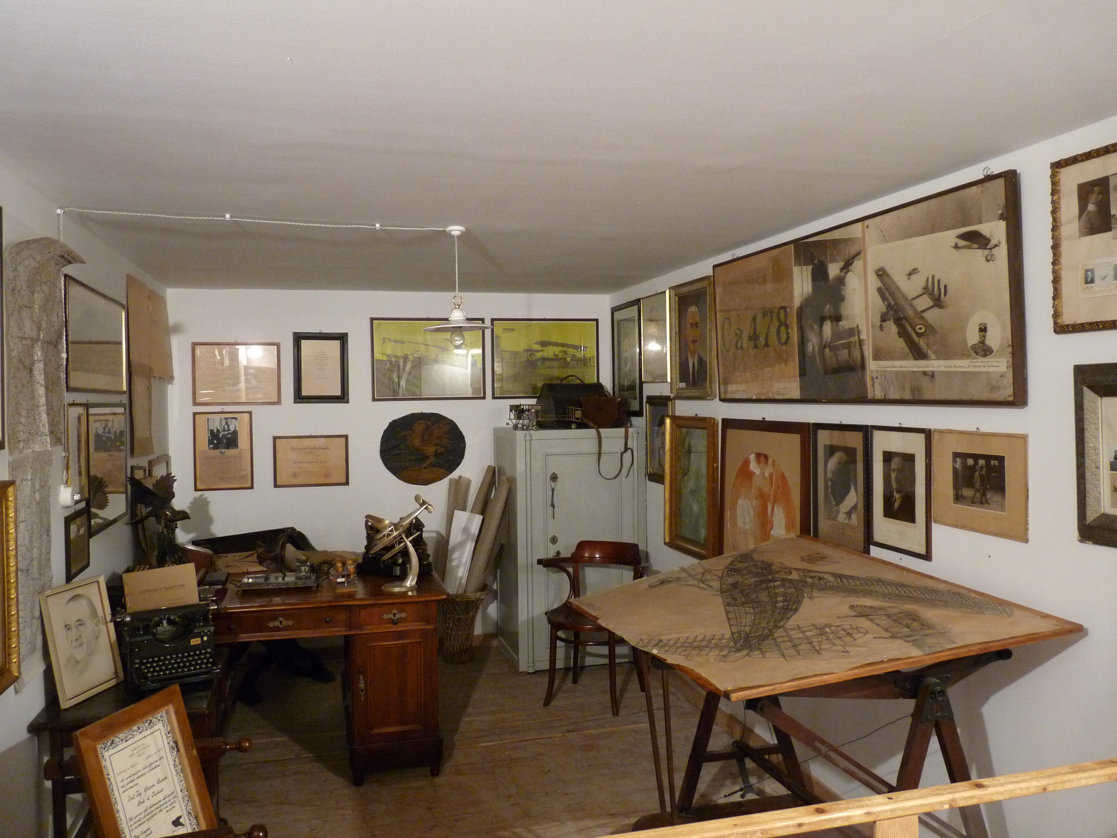 Trento (Italy): reconstruction of the Gianni Caproni office at the Museum of Aeronautics Gianni Caproni.